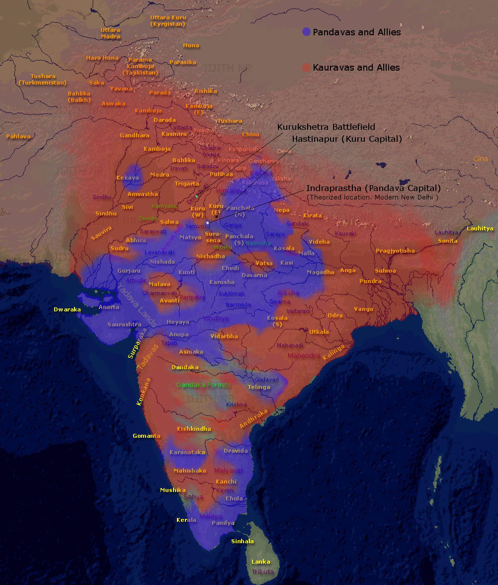 Approximate alliances of battle of Kurukshetra in the Mahabharata.